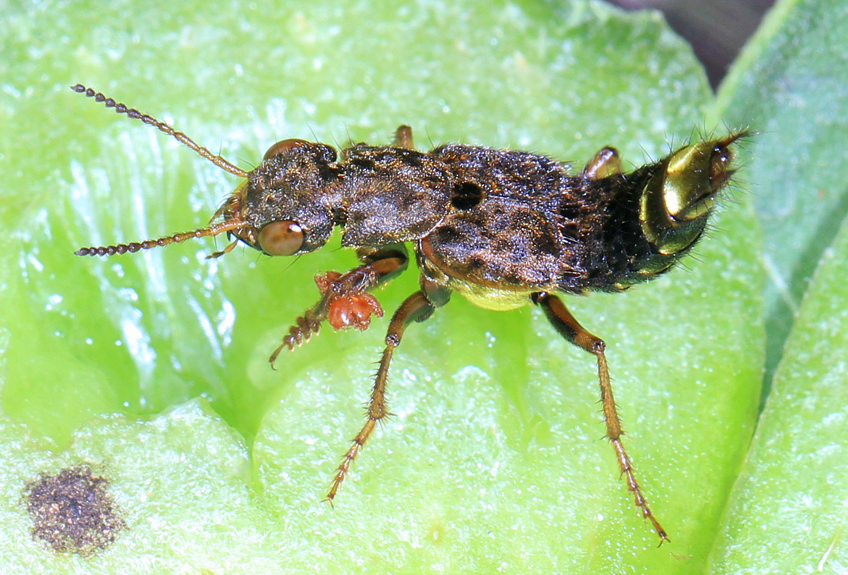 Gold and Brown Rove Beetle - Ontholestes cingulatus, Waterways Farm, Lovettsville, Virginia.